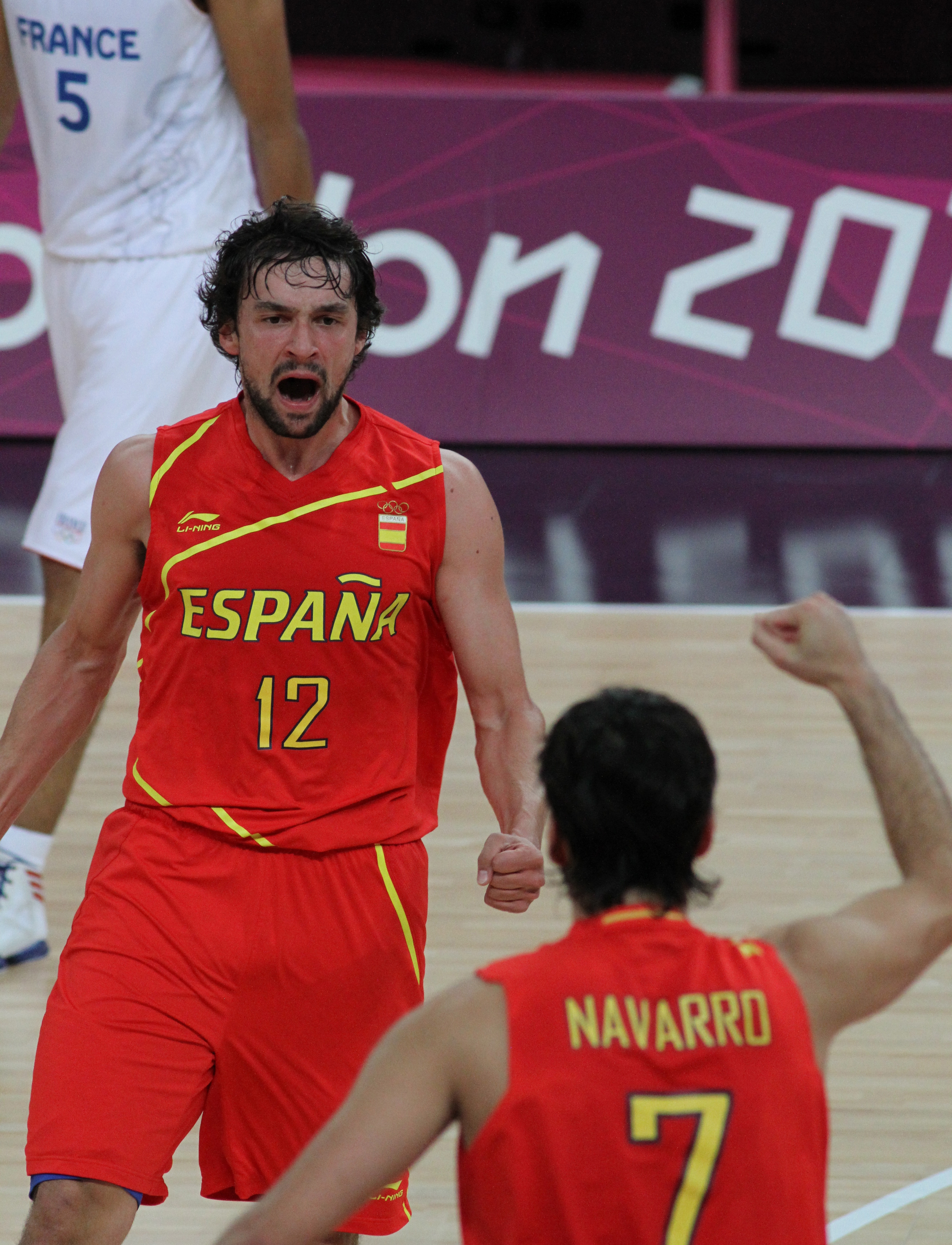 2012 Summer Olympics basketball, Spain vs France